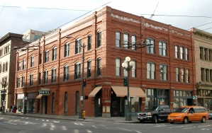 The Cadillac Hotel building in the Pioneer Square neighborhood of Seattle, Washington was seriously damaged in the Nisqually earthquake. After rehabilitation by the Historic Seattle PDA, it became the new visitor center of the Klondike Gold Rush National Historical Park.